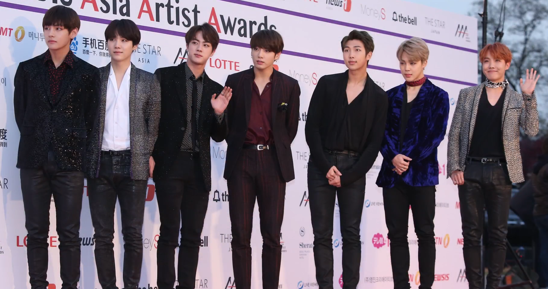 BTS at the Asia Artist Awards on November 16, 2016